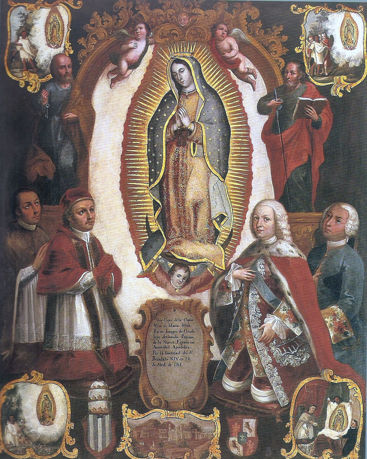 Allegory of the papal declaration of Our Lady of Guadalupe patronage over the New Spain, Anonymous author from New Spain, 18th century.